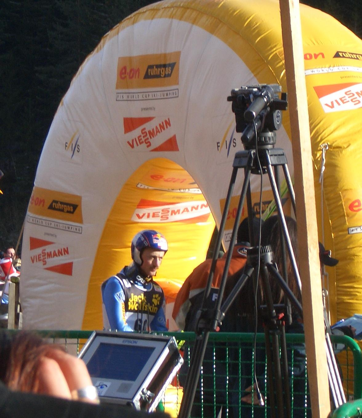 Ski jumper Adam Małysz during World Cup event in Titisee-Neustadt 2005